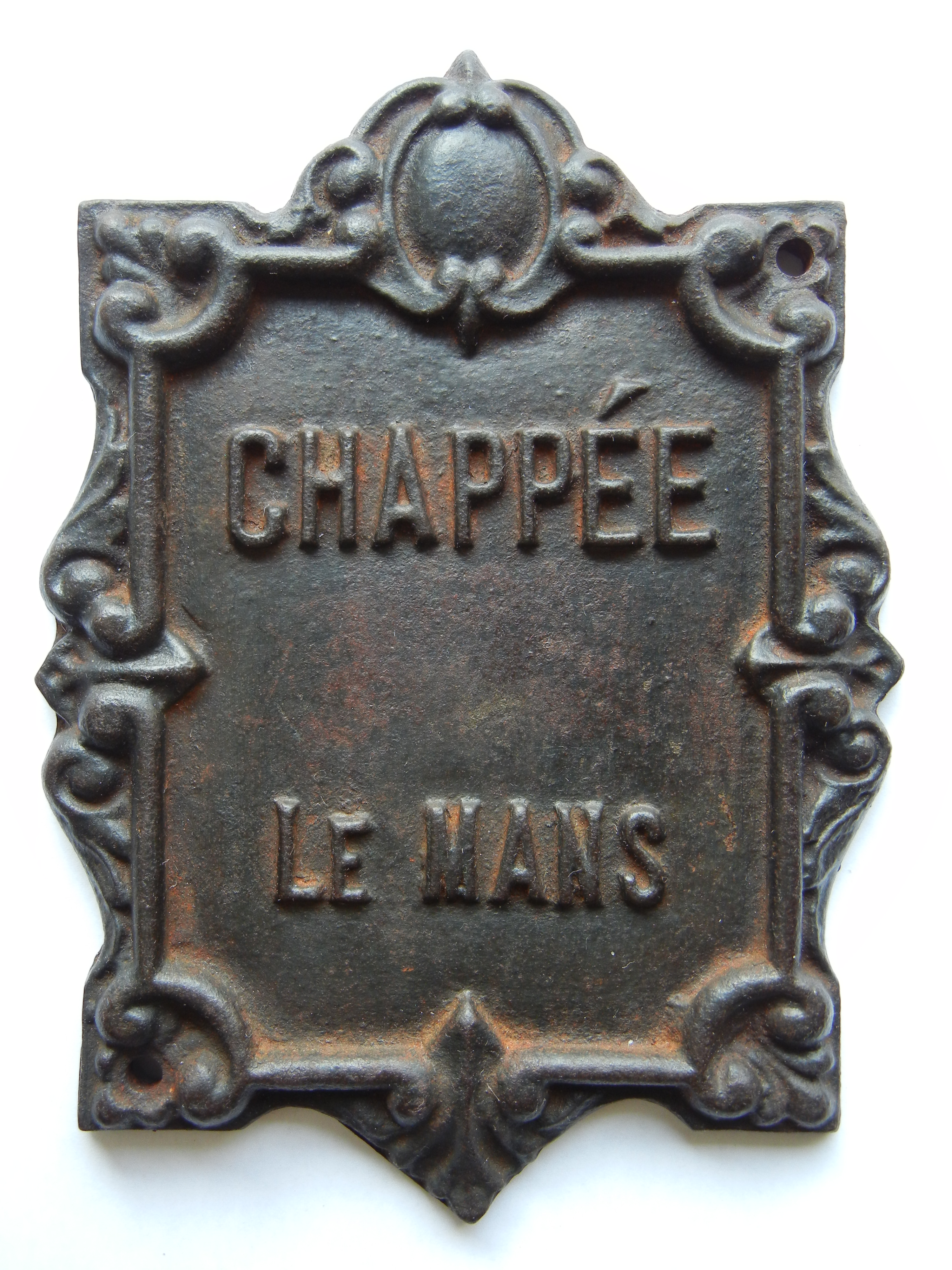 Nameplate Chappée, Le Mans